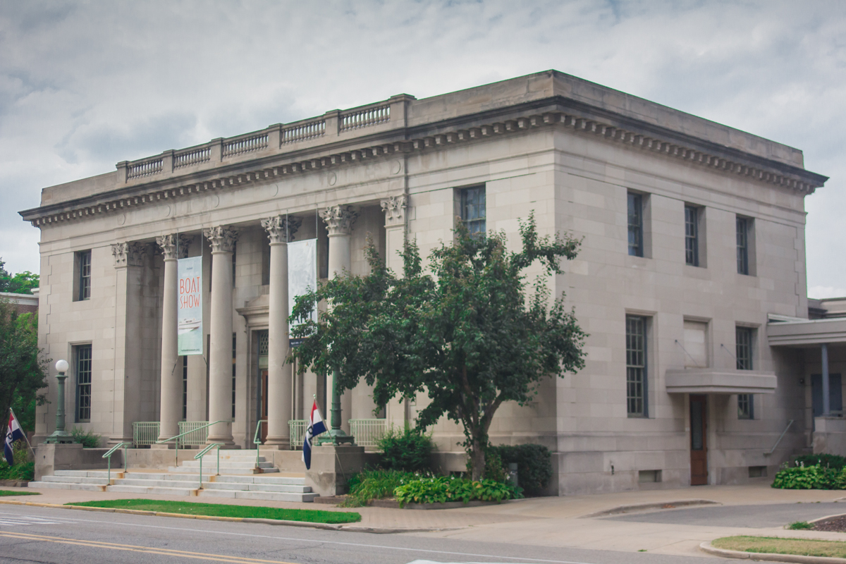 Post Office - Holland